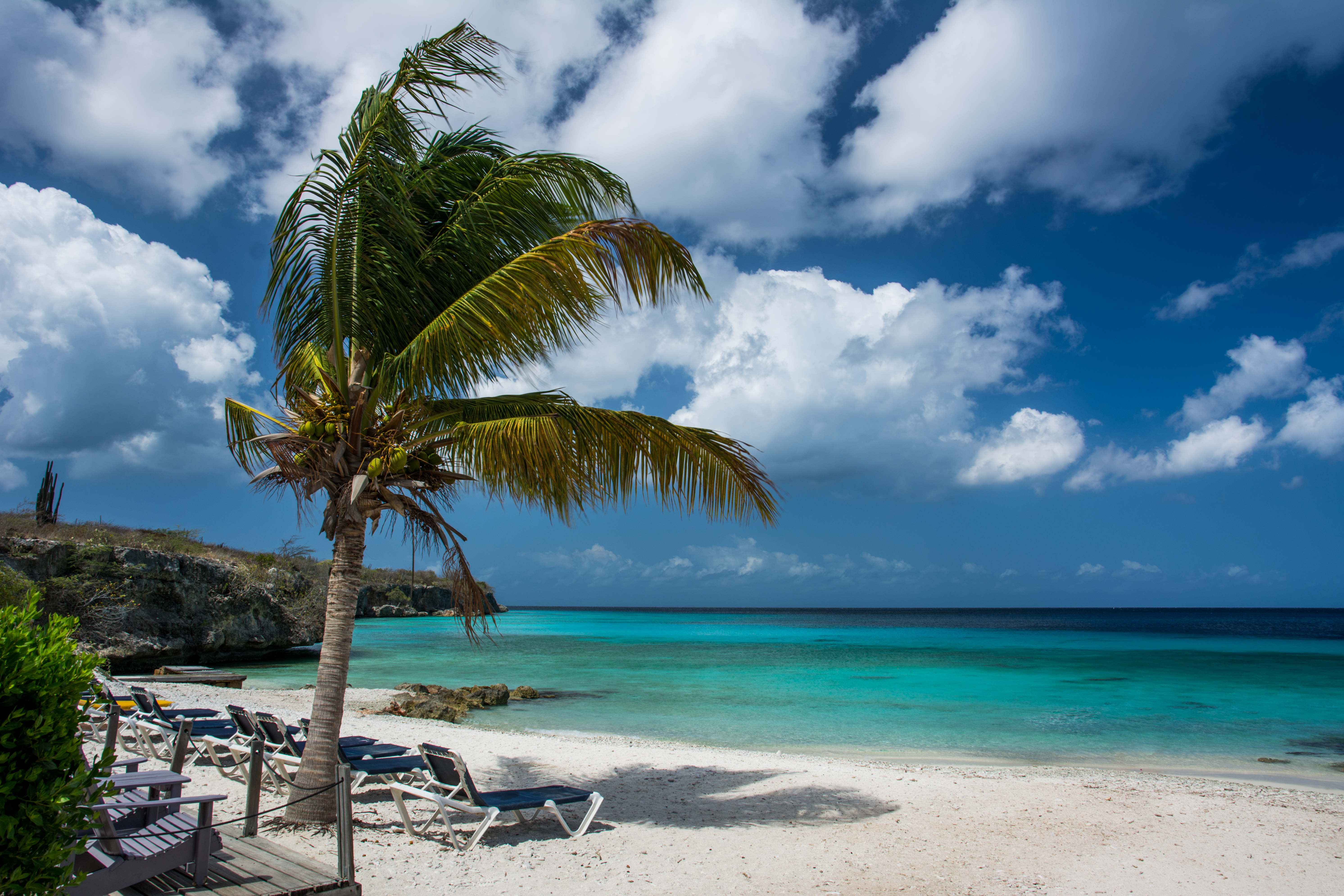 Curacao, Playa Porto Marie English | polski | +/−